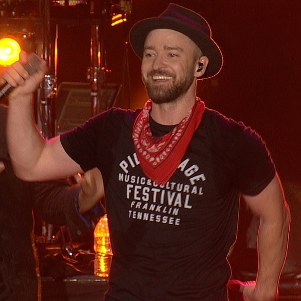 Justin Timberlake at the Pilgrimage Festival